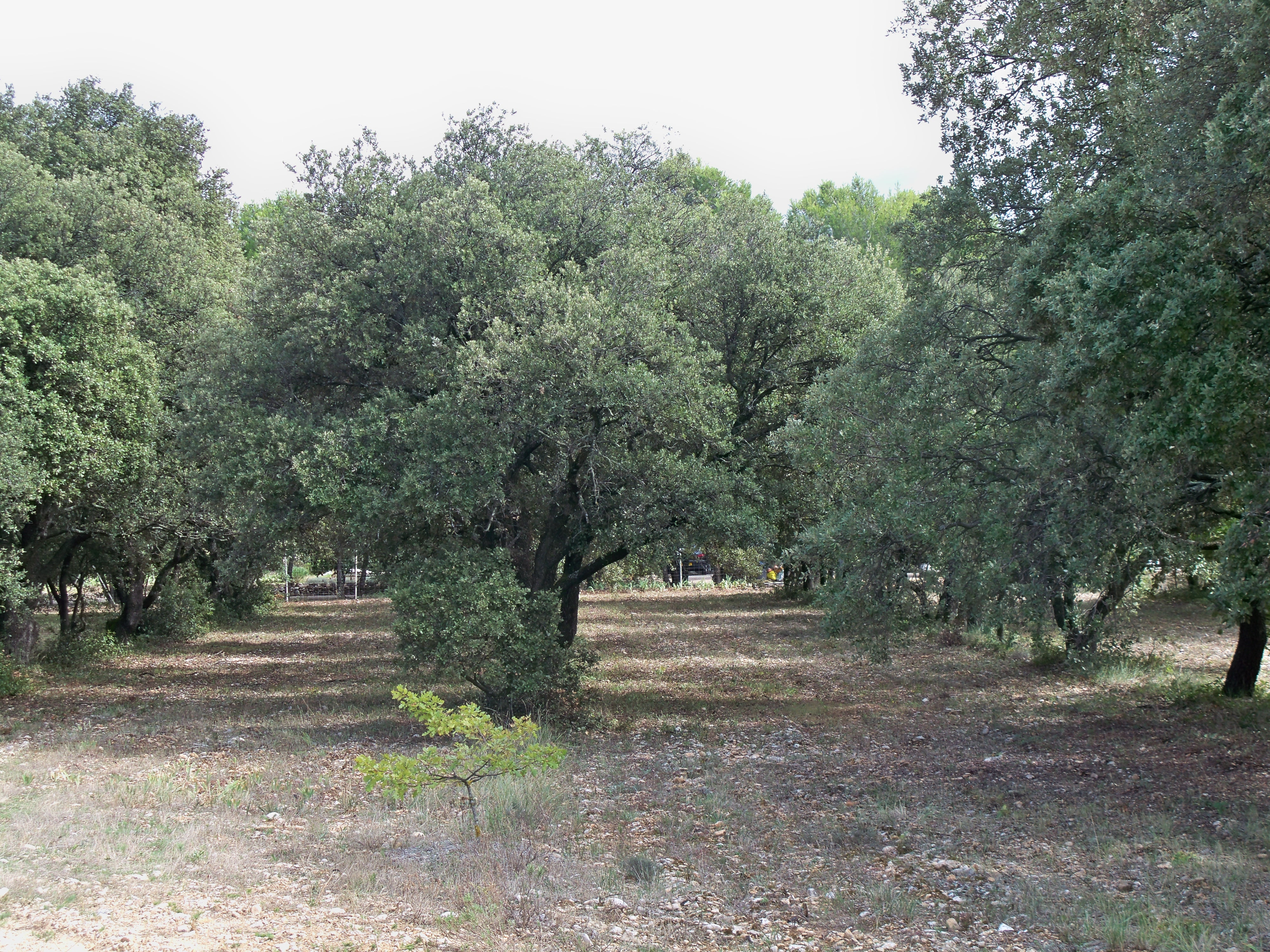 Truffles field in Vaucluse, France